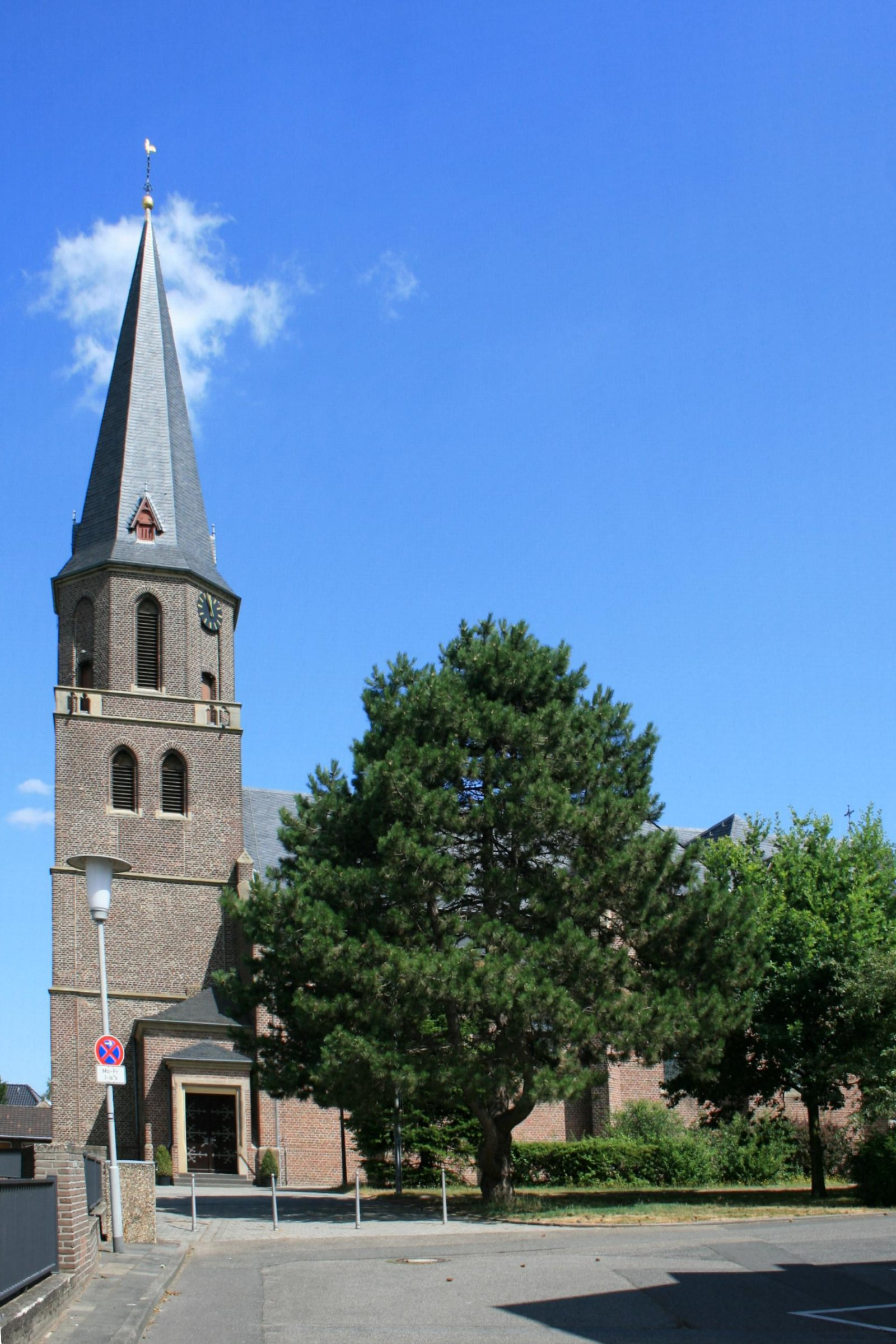 Cultural heritage monument No. A 034 in Mönchengladbach